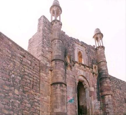 kila of mandrayal